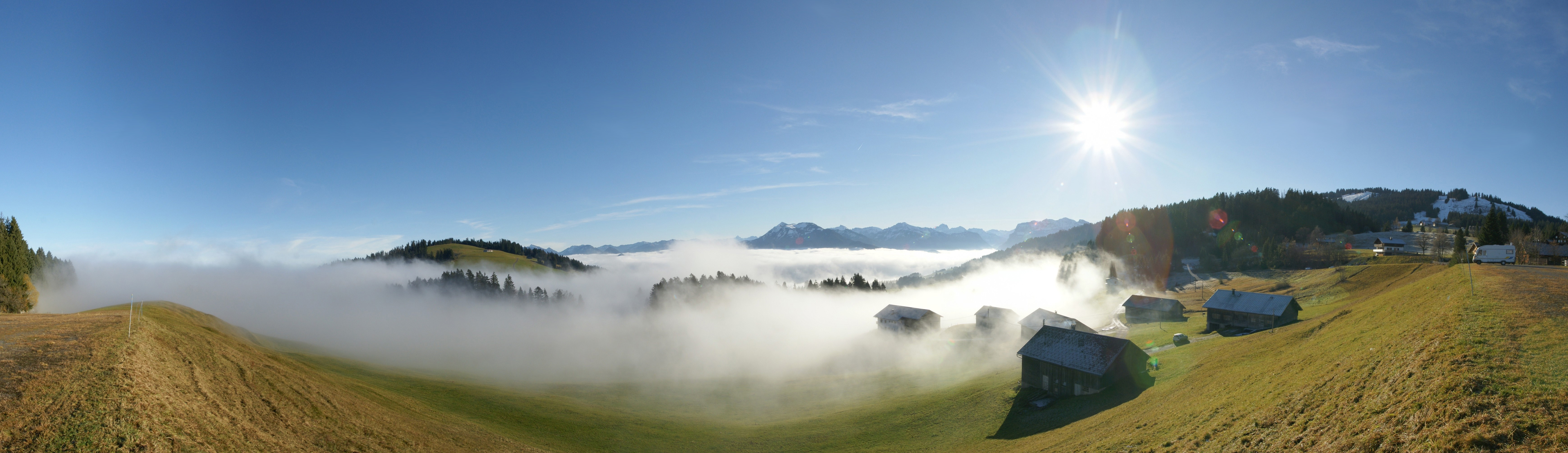 180 ° panorama at Bödele, located between Dornbirn and Schwarzenberg, Vorarlberg, Austria. The 2 peaks in the middle are the winter Perennial 1877m and the right of the High Ifen 2230m. The mountain range under the sun is the northern flank of Kanisfluh. On the right screen to see the ski area with the Bödele Hochälpelekopf 1464m.